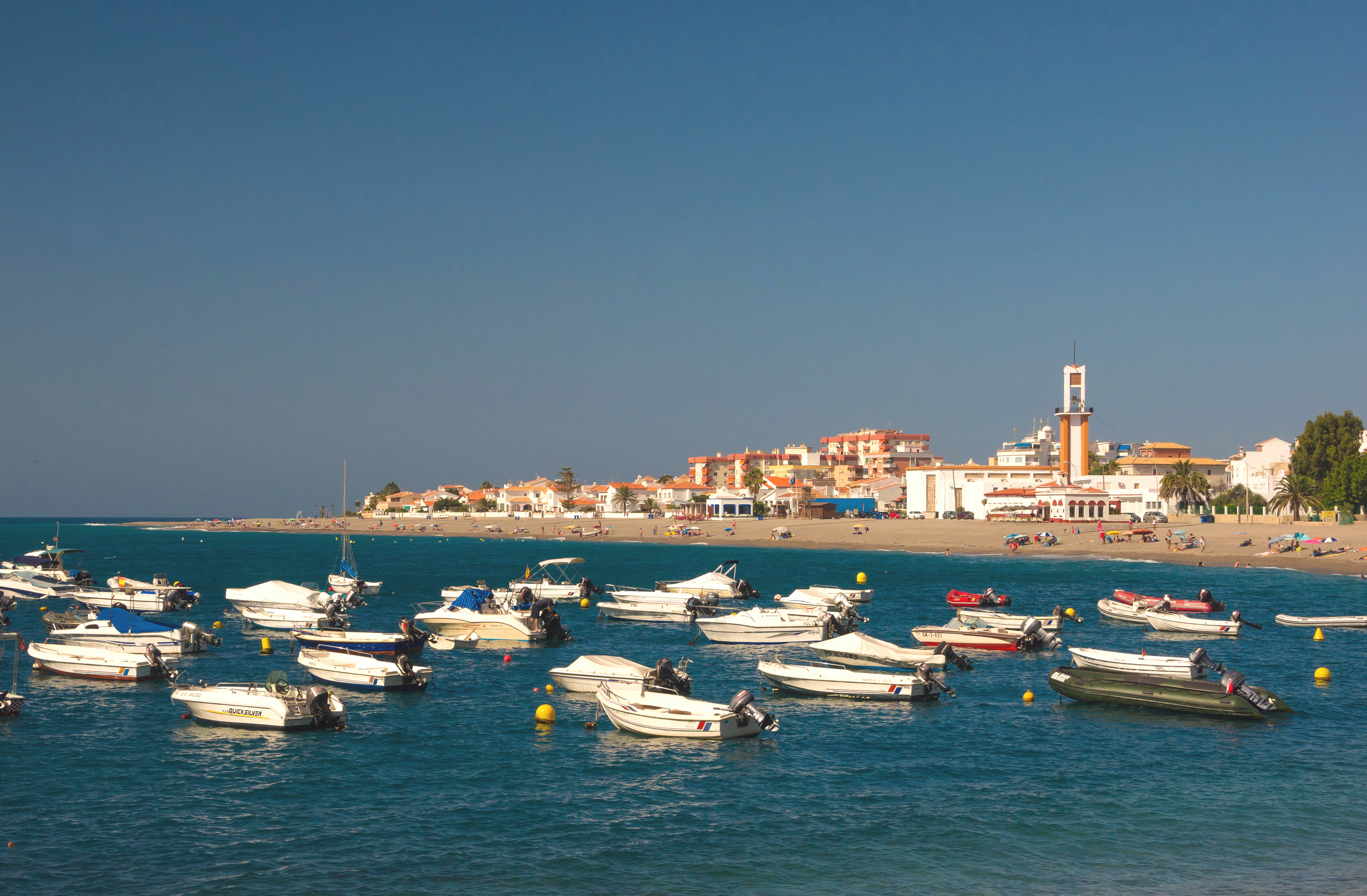 the beach of Calahonda, Alboran sea, Granada province, Spain.